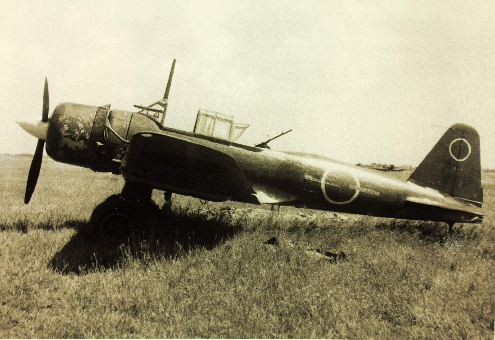 An Imperial Japanese Army Air Force Mitsubishi Ki-51 "Sonia" pictured in a camouflage paint scheme at an unidentified airfield.